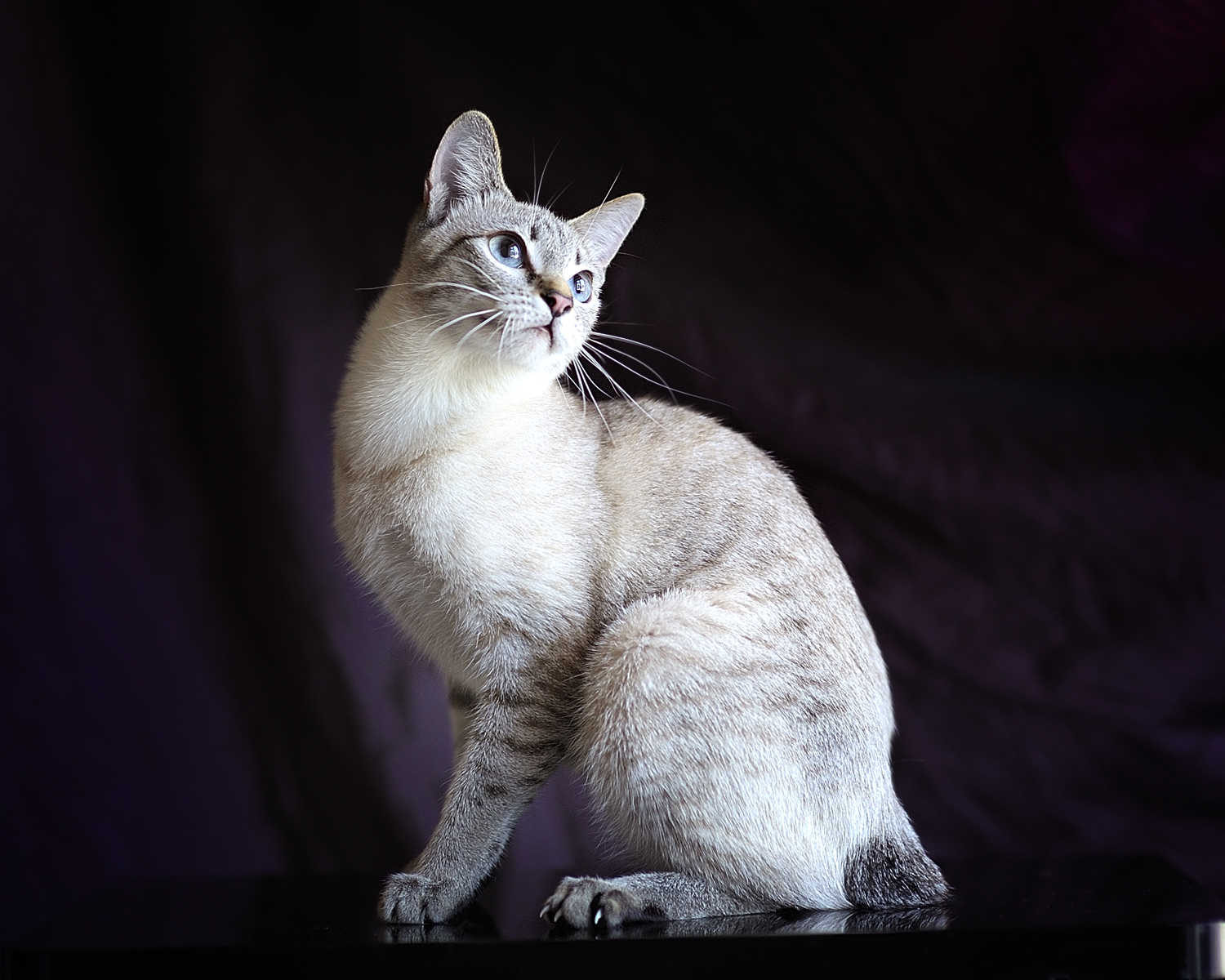 MEKONG BOBTAIL cat of rare lynx-point colour Dona Miya Ayutthaya. Cofein Pride cattery (WCF).